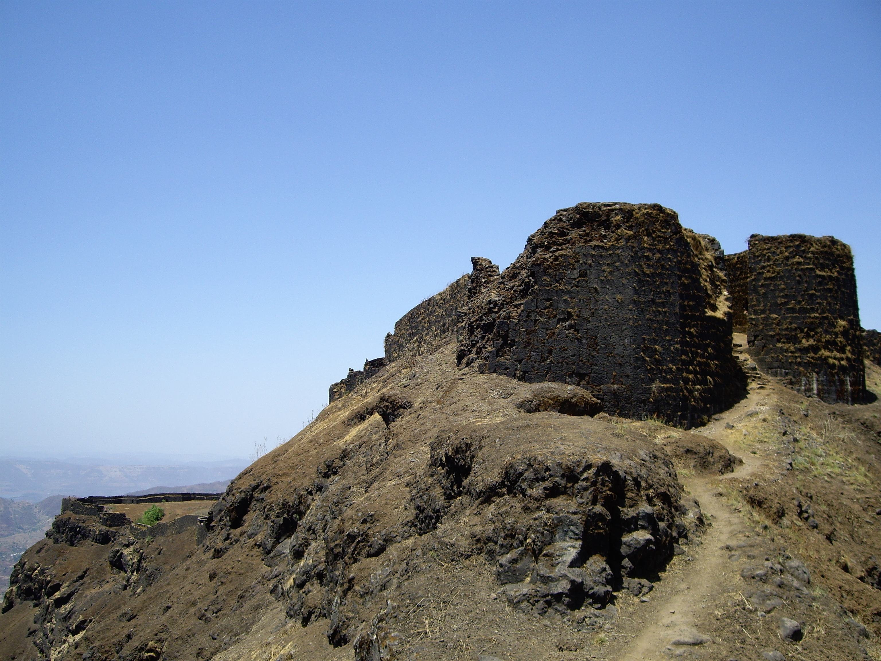 Place : Fort Torna